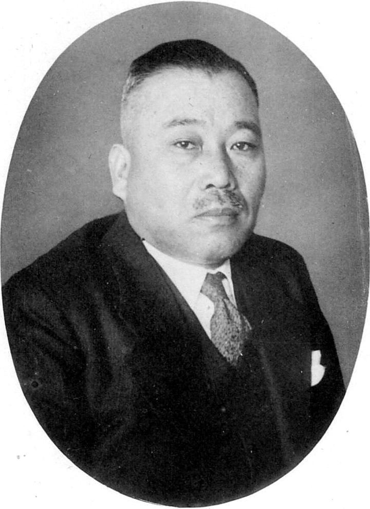 Nagamatsu Toshikuma.